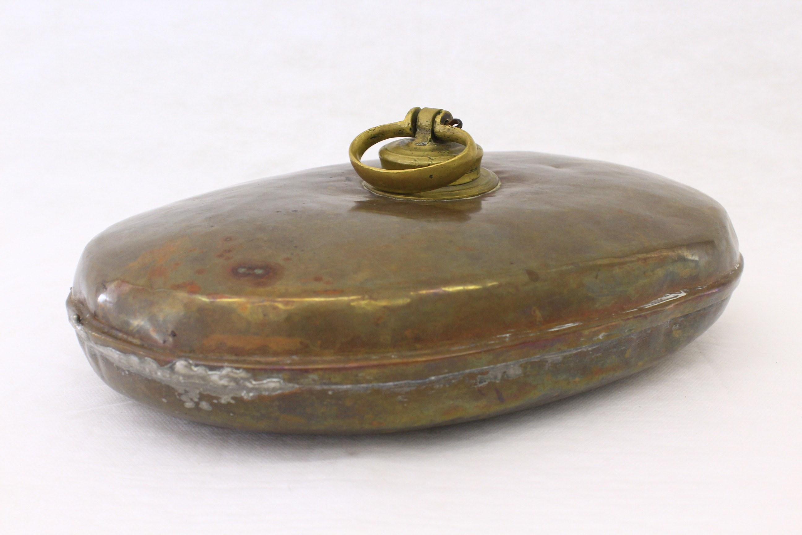 Hot water bottle. Metal. Unknown place of origin, late 19th century. Donor: Eva Maria Augusta Boeckh Haesbish. Collection of the Immigration Museum of São Paulo. According to the donor, this object belonged to Christa Radius, a German migrant who, like her, came to Brazil in the 1950s.